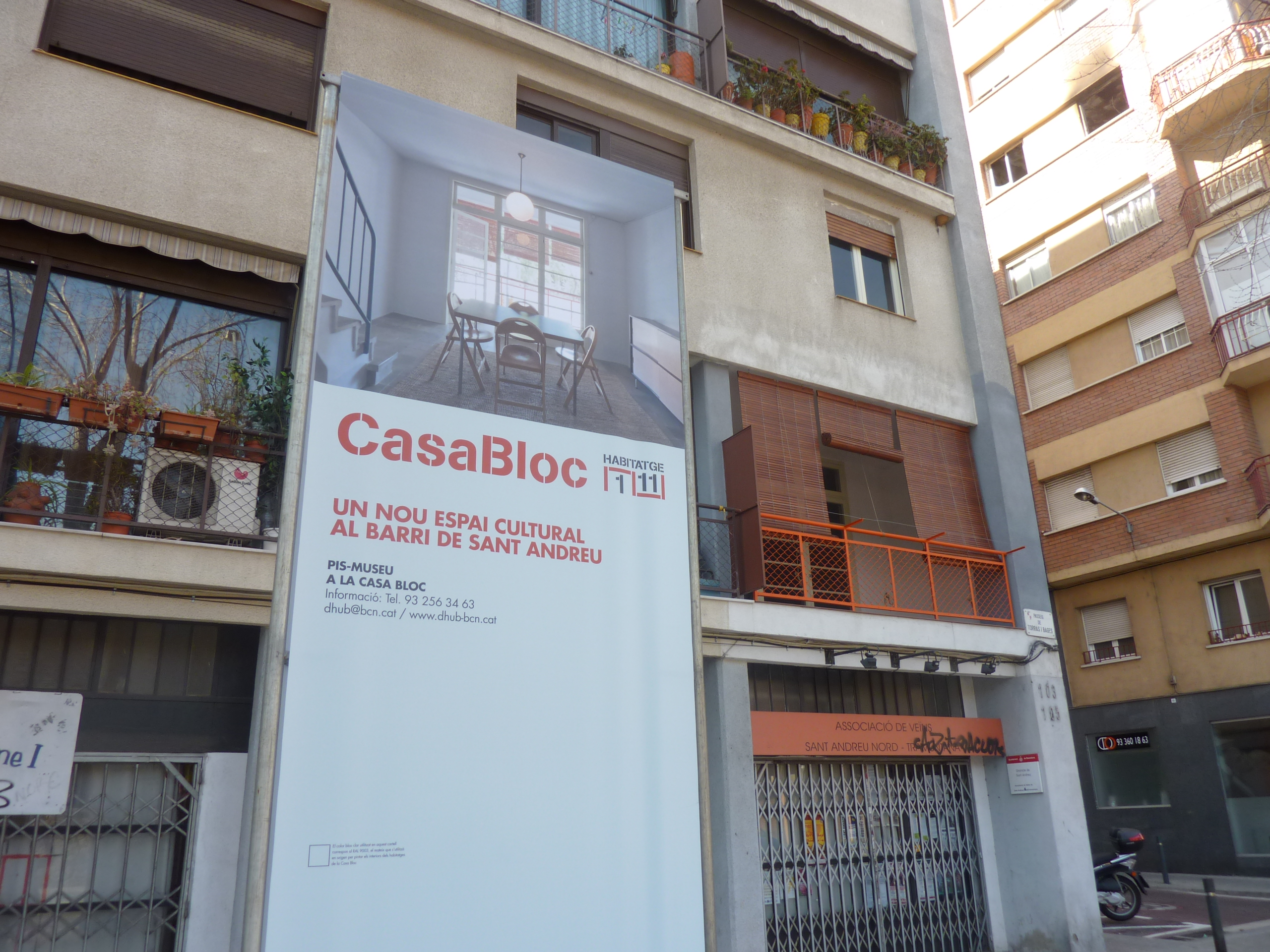 Opening the Casa Bloc Apartment Museum (March 2012)